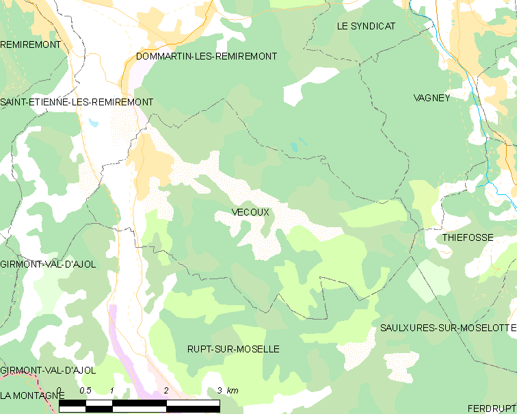 Map of French municipality Vecoux